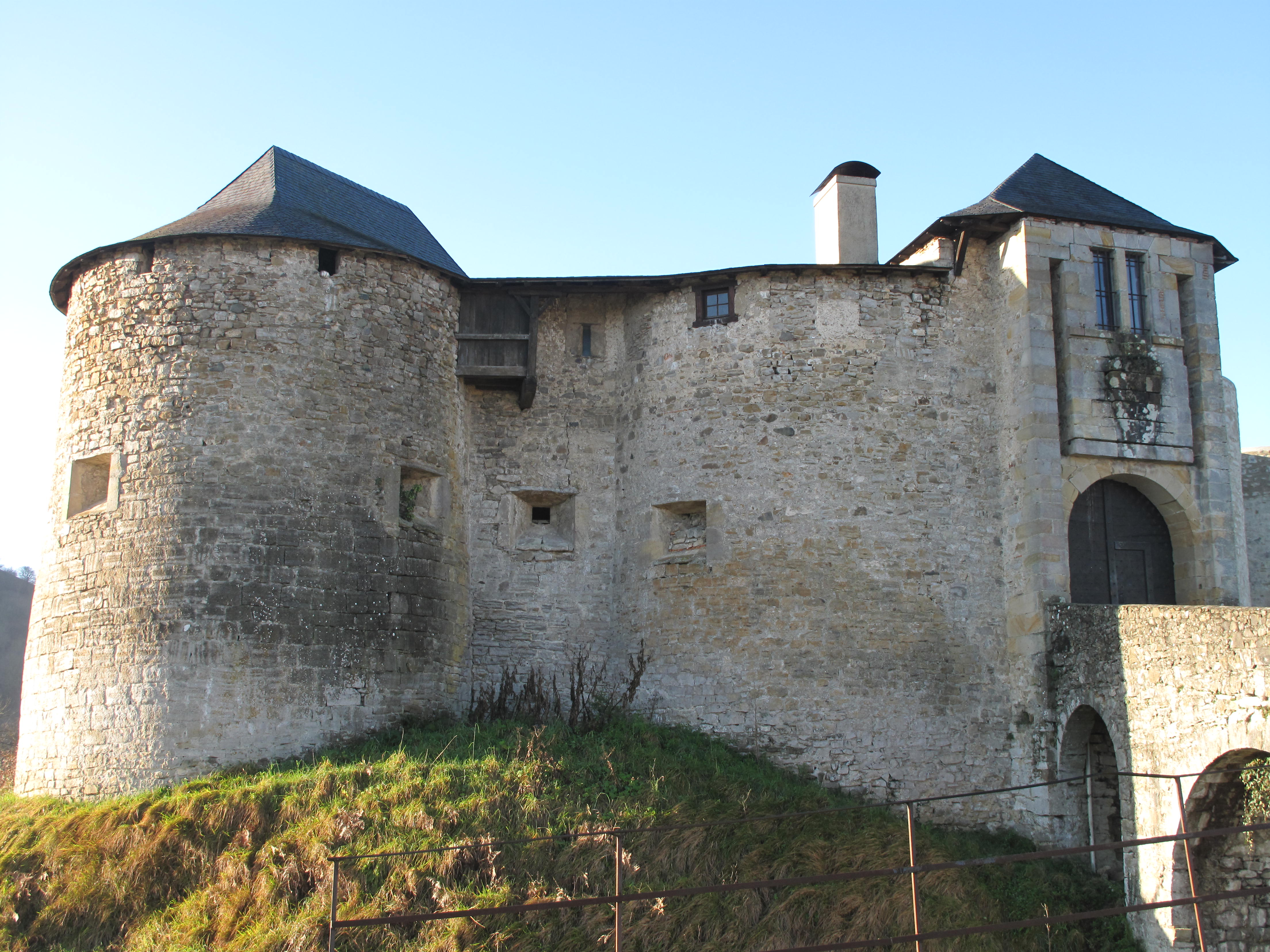 The North-East wall of the castle of Mauléon-Licharre, (Pyrénées-Atlantiques, France).